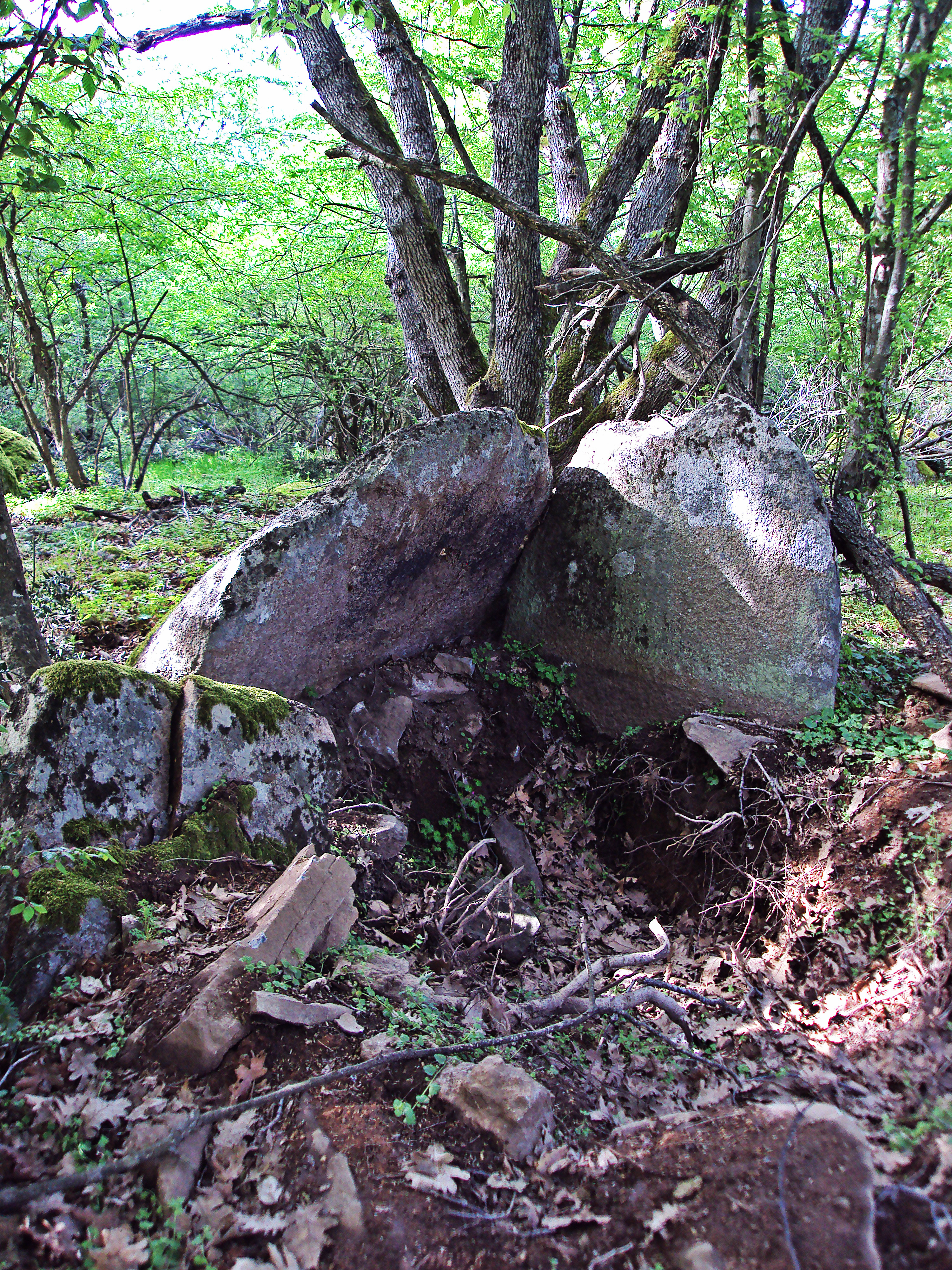 Begliktash Destroyed Dolman